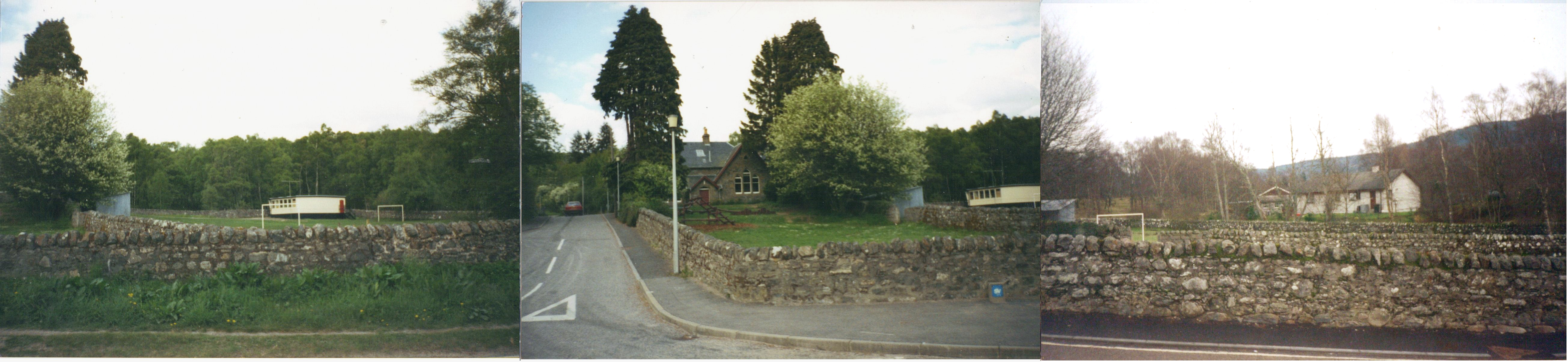 A picture I took my self of Balnain primary school in 1998.